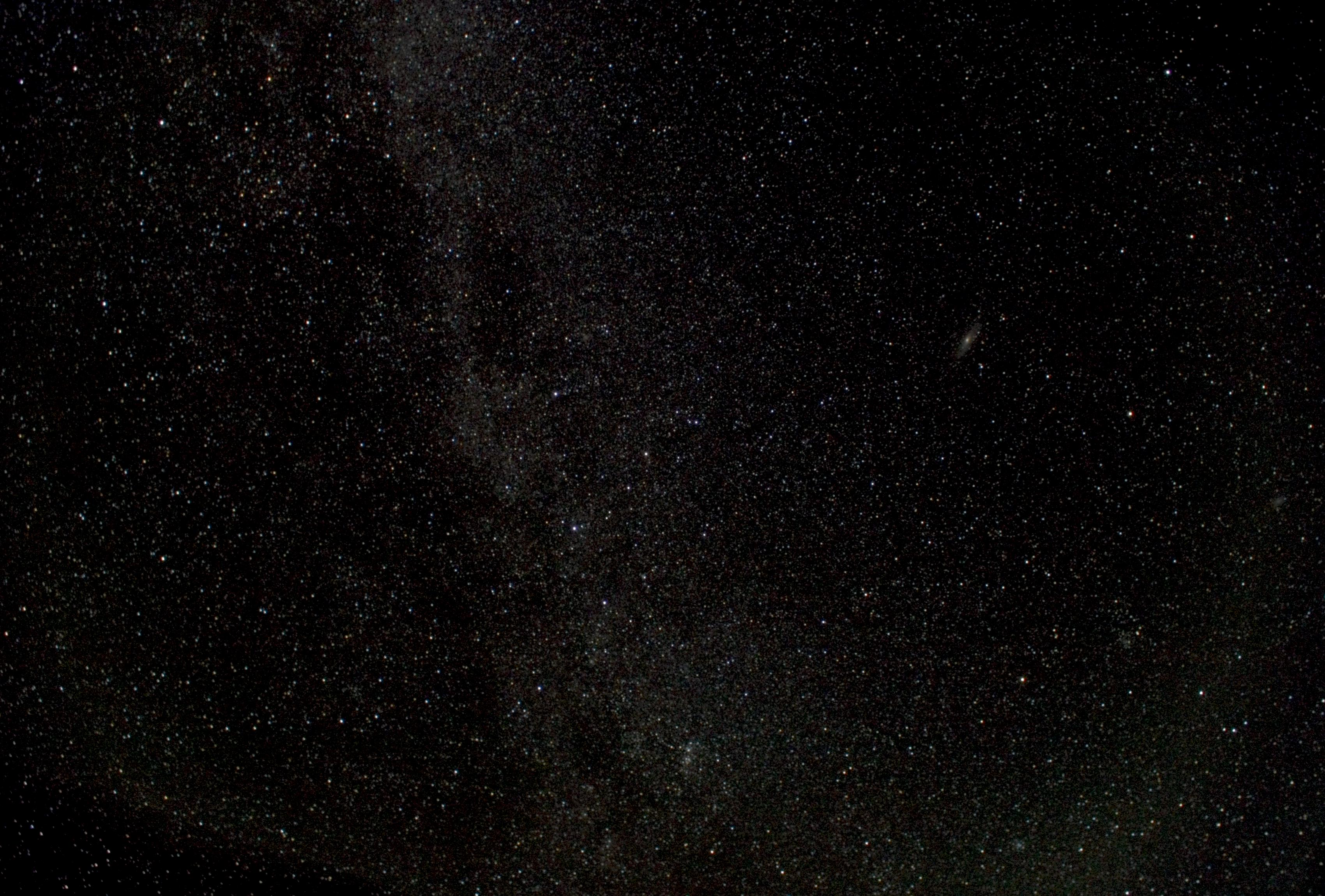 Wide angle sky image centered in Cassiopeia. Stack of 35 pictures, 30 second exposure each at ISO1600. Stack software: own, written by the same author of this image in VB6.